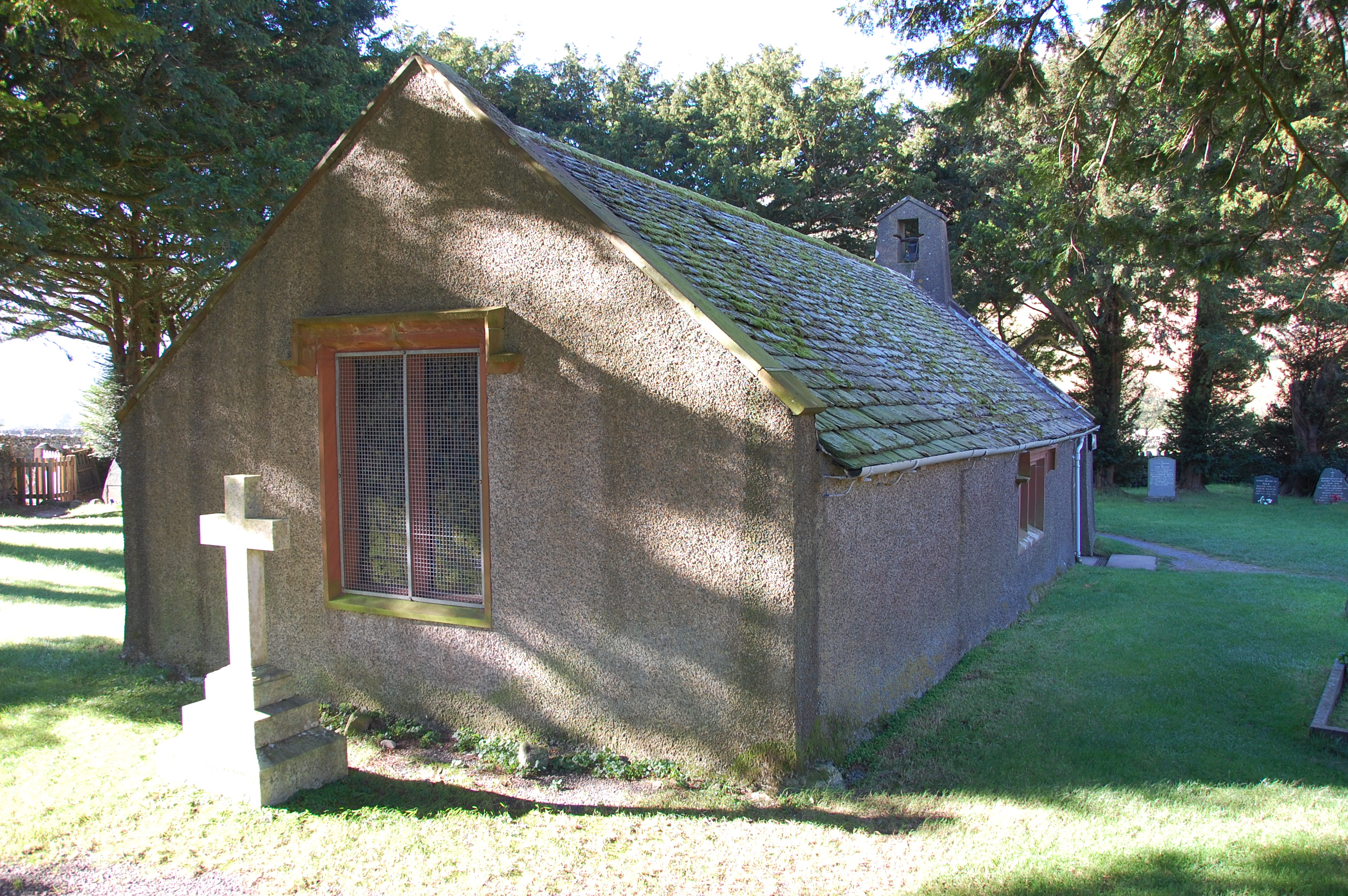 St. Olaf's Church. Taken in Wasdale Head, England